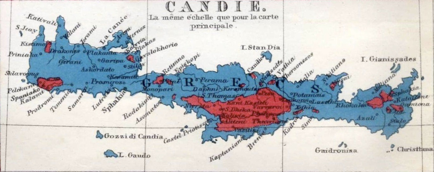 Crete, ethnic map. Greek Orthodox (blue) and Cretan Muslim/Turkish (red).